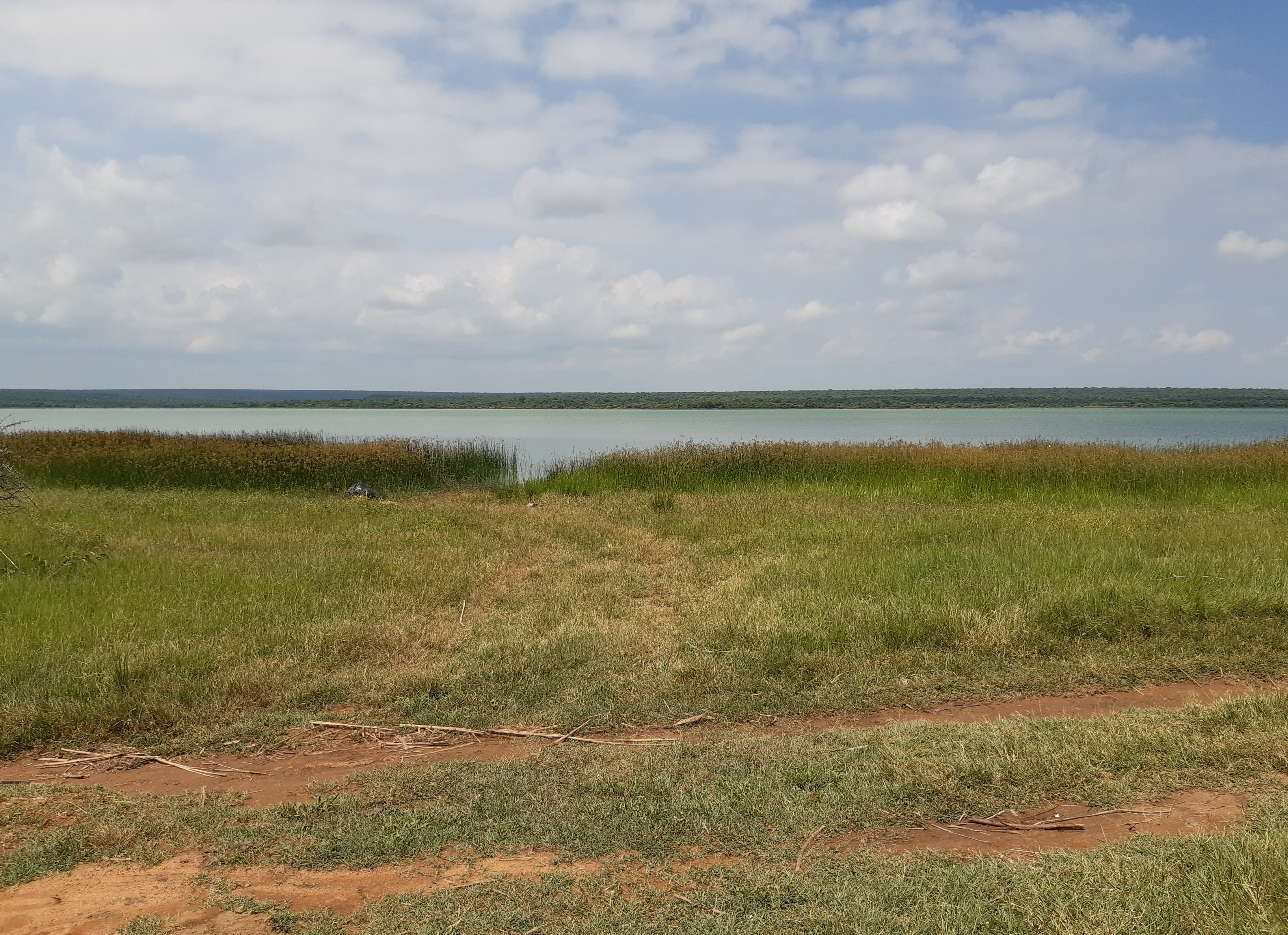 This is an image with the theme "Africa on the Move or Transport" from: South Africa